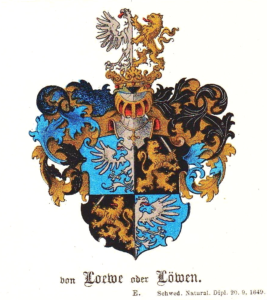 Coat of arms of von Löwen family.